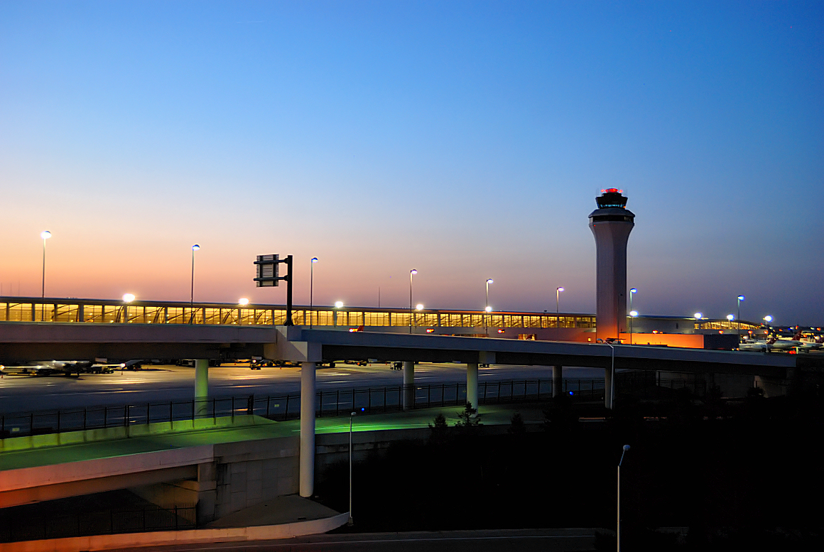 Detroit Metropolitan Wayne County Airport Air Control Tower during the sunset